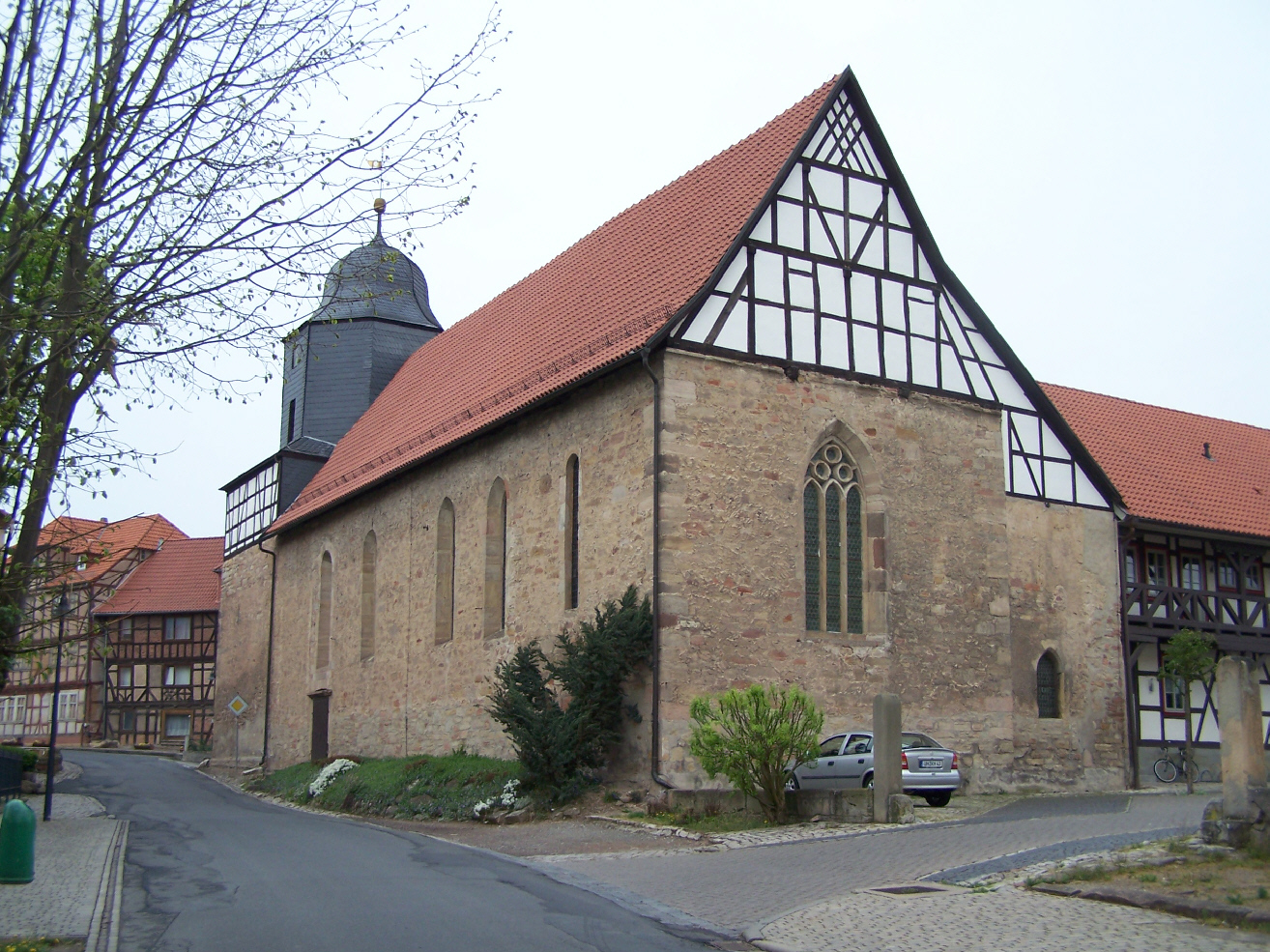 The former collegiate church St. Bonifacius in Grossburschla.